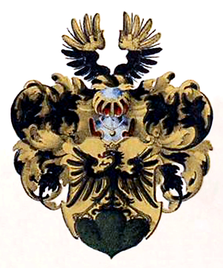 von Berg (von Oesel) CoA